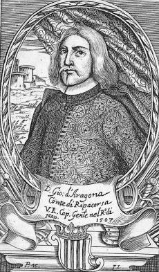 Juan de Aragon de Ribagorza, viceroy of Naples